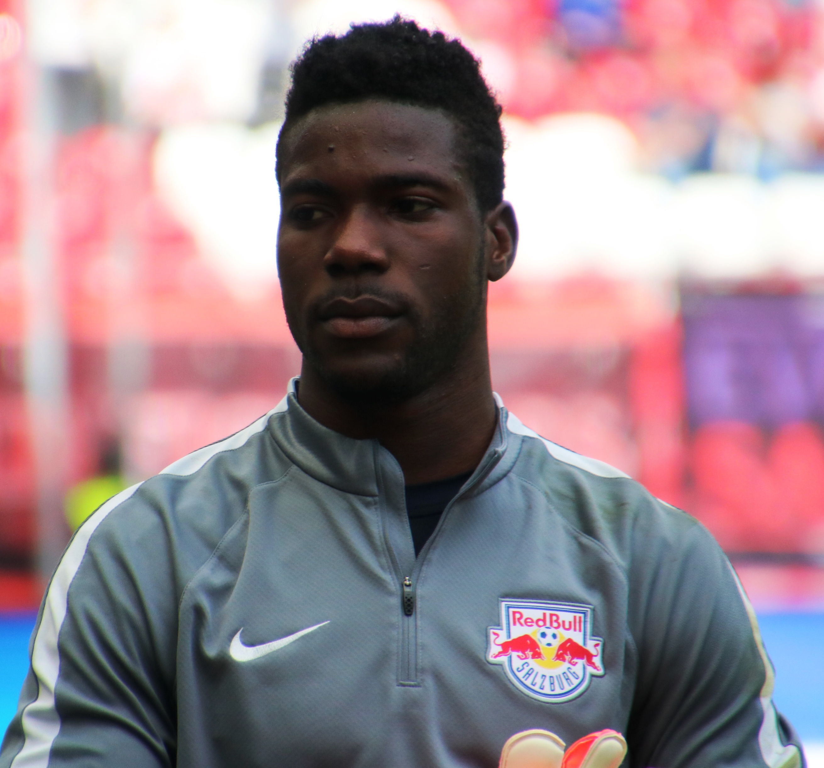 league match Austrian Bundesliga